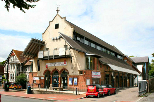 Charles Cryer Studio Theatre, Carshalton, Surrey in the London Borough of Sutton. I do not know what this building was used for before it became a theatre.